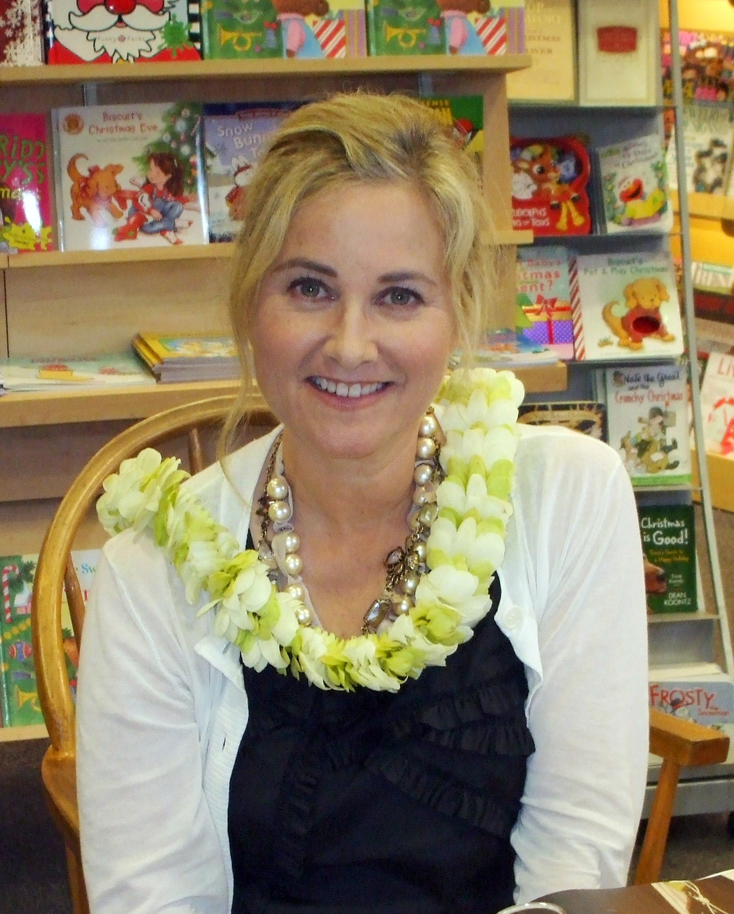 Maureen McCormick at Borders Express Queen Kaahumanu Center signing her book Here's the Story: Surviving Marcia Brady and Finding My True Voice, December 6, 2009